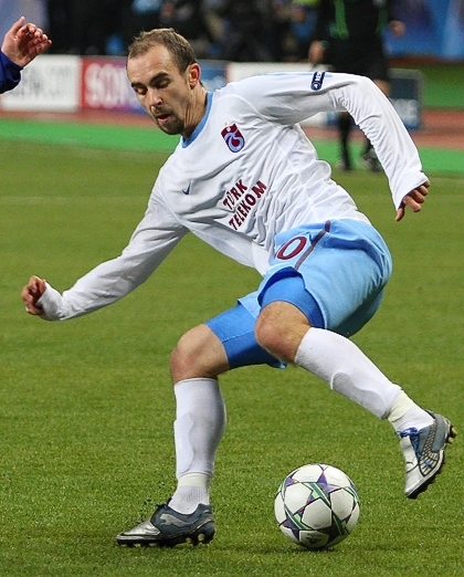 Polish football player during Adrian Mierzejewski Champions League match CSKA Moscow vs Trabzonspor AŞ